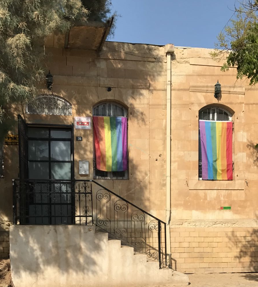 The Pride House if Be'er Sheva, 2017